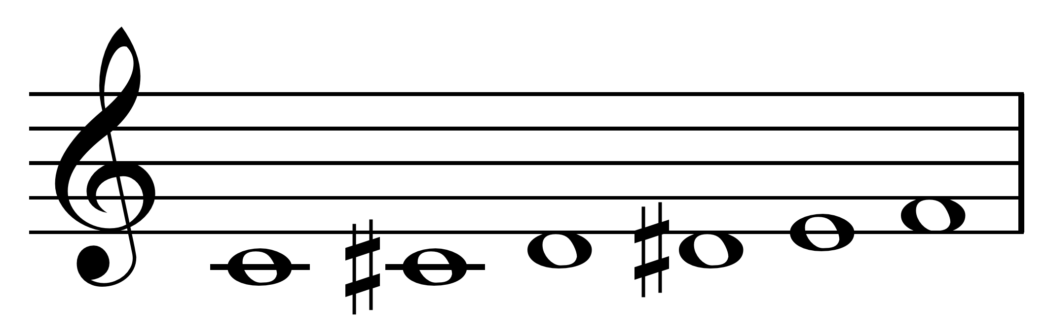 Chromatic hexachord (hexad) on C, using sharps. Forte no.: 6-1, Martino's letter: A.